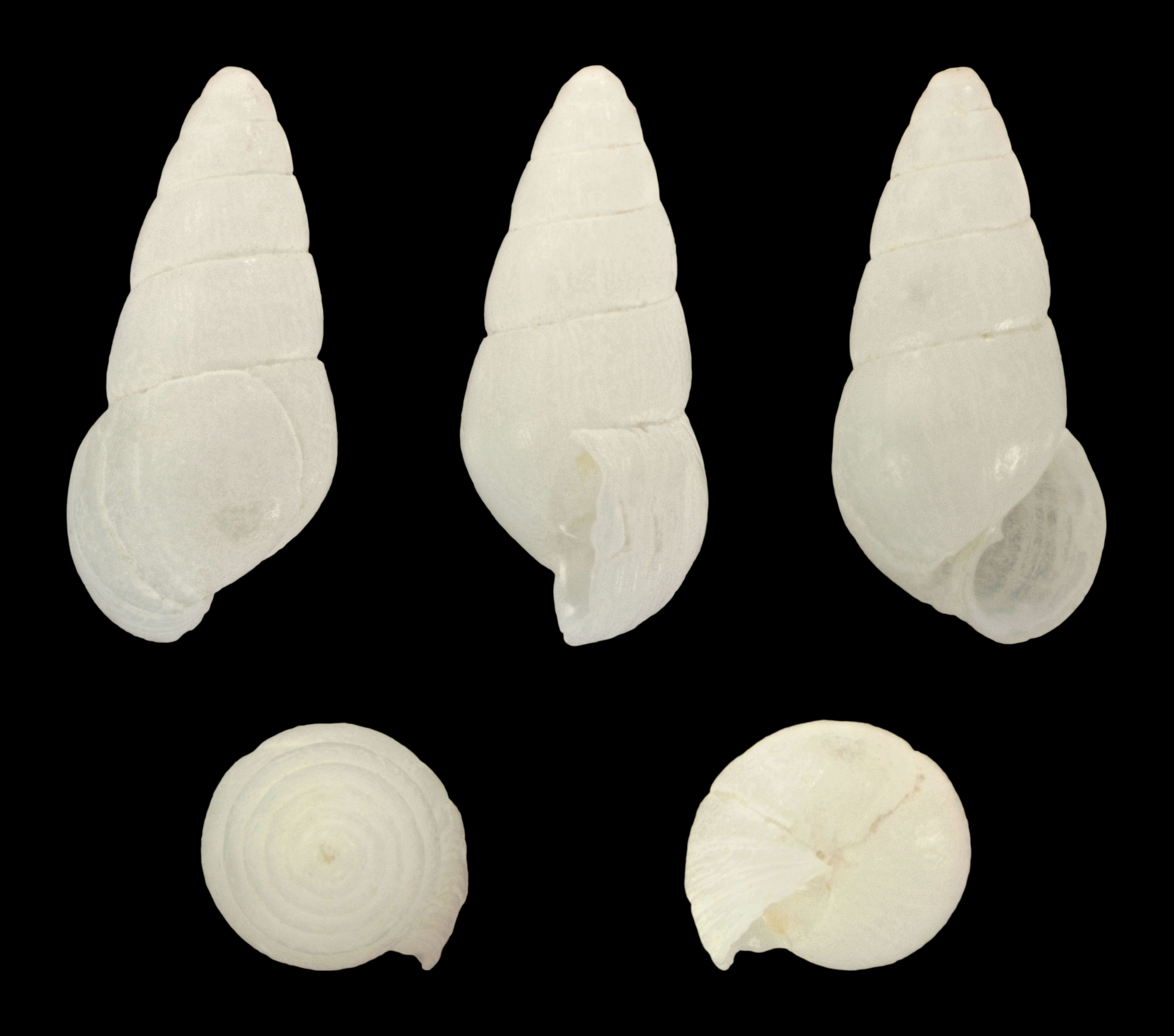 Odostomia acuta Jeffreys, 1848, Length 0.42 cm; Originating from Mohammedia, Morocco; Shell of own collection, therefore not geocoded.